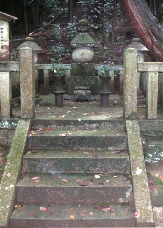 Tomb of Fenollosa within the precincts of Miidera Japan